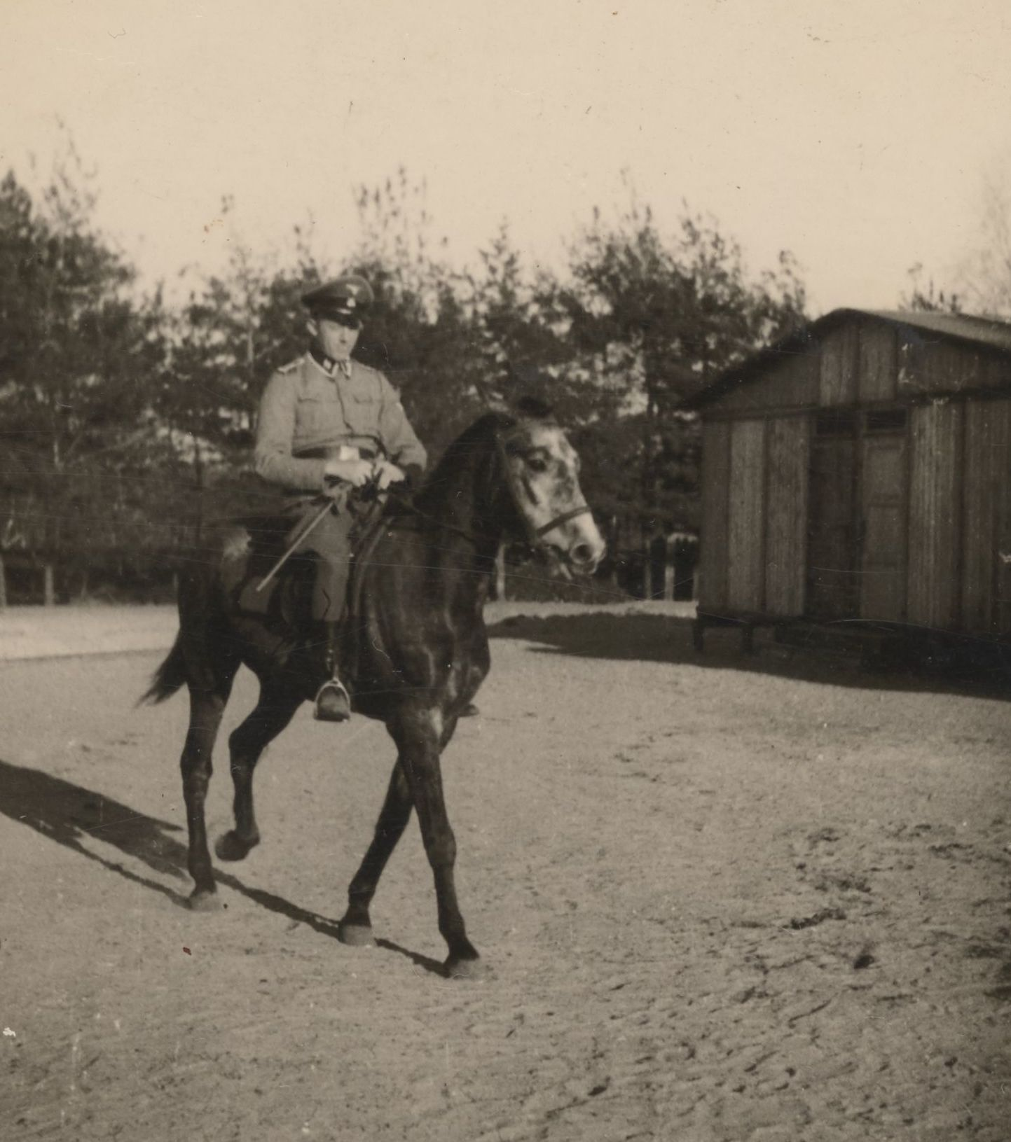 Johann Niemann riding his horse Cilly. Picture likely taken in front of one of the Lager II sorting barracks near the ramp.